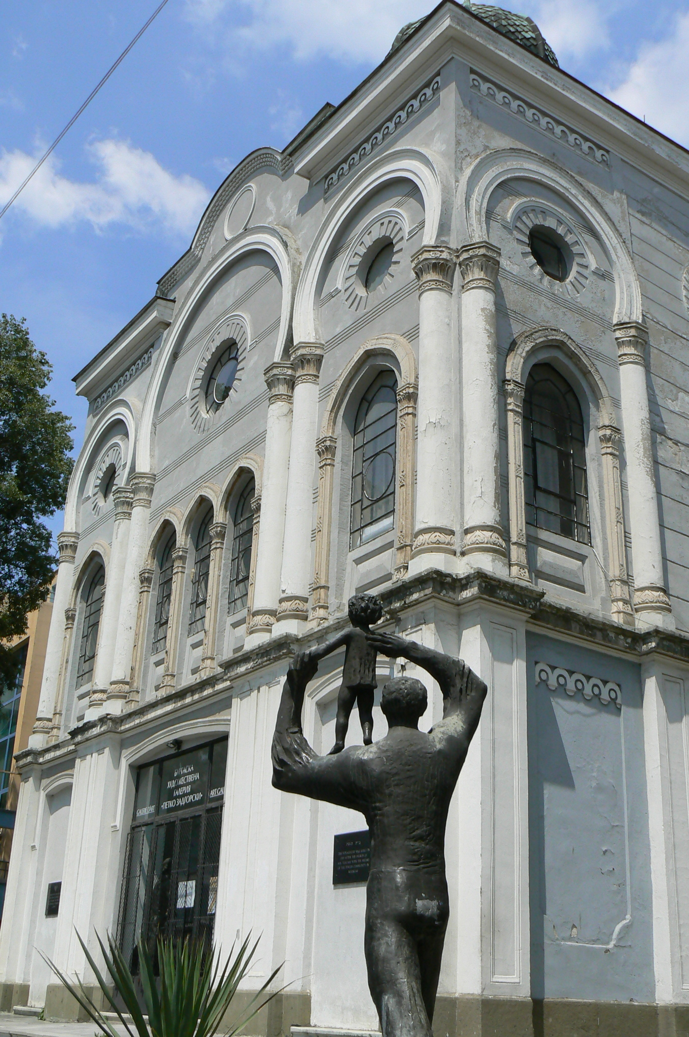 Burgas art gallery "Petko Zadgorski" in the building of the former Synagogue.